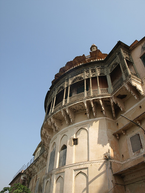 The ol' Maharaja of Benares' crib.